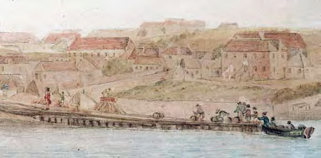 Detail of the port of Sydney 1808